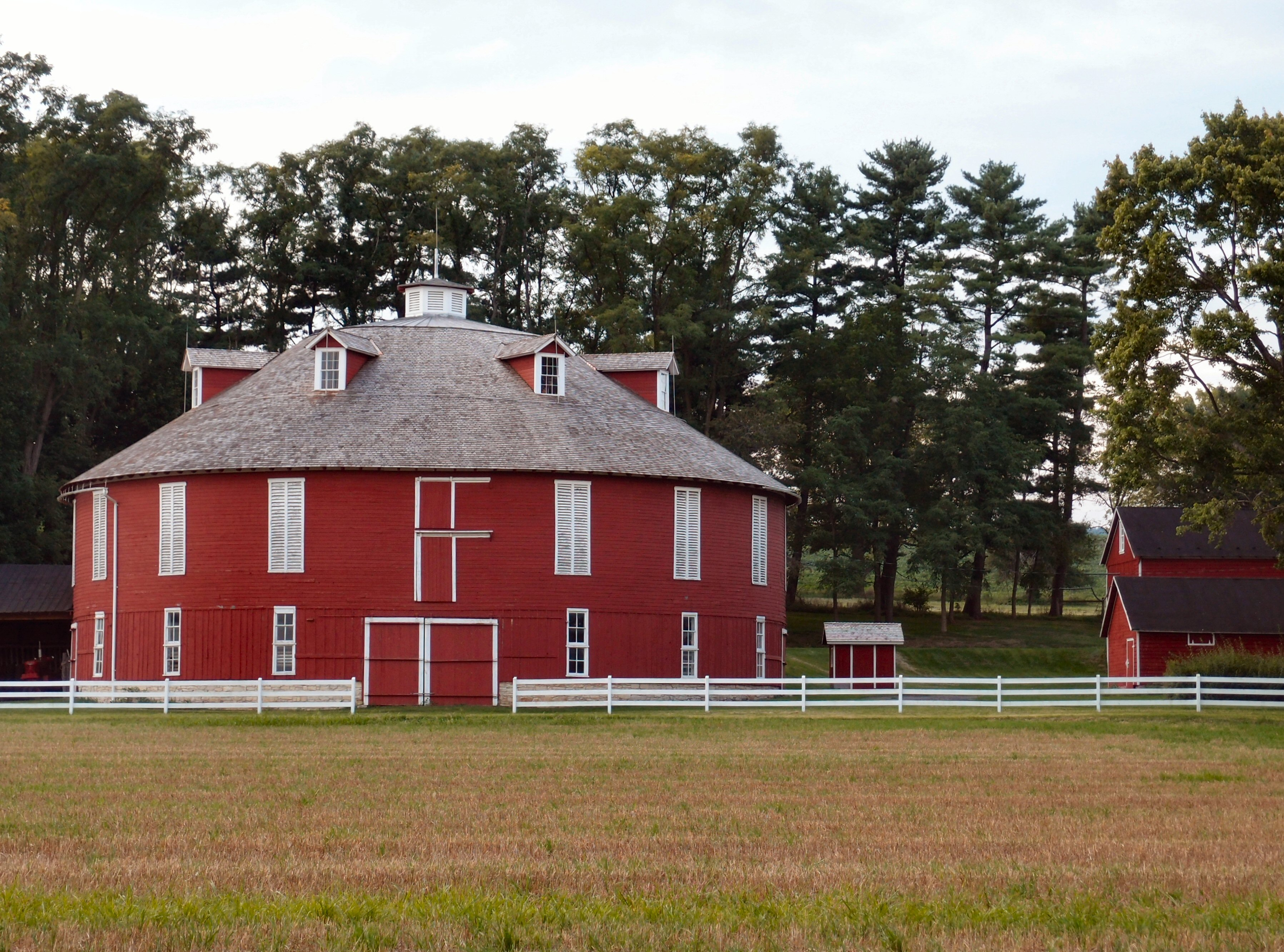 Neff Round Barn as seen from the road.